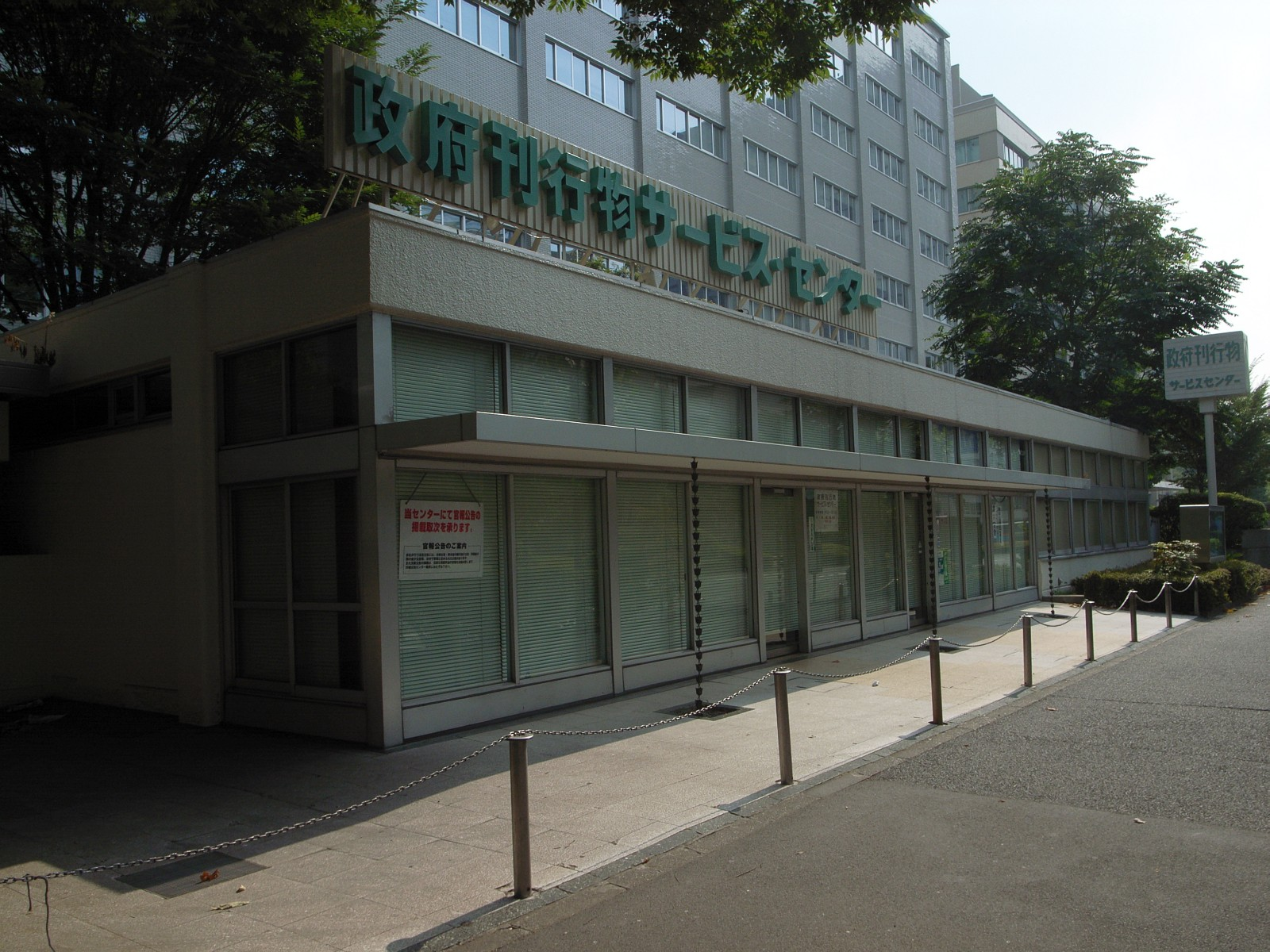 Government Publications Service Center, Kasumigaseki, Tokyo, Japan / 霞が関政府刊行物サービス・センター